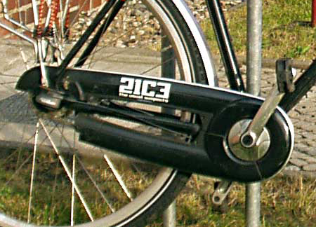 Close-up of a touring bicycle's Chaincase